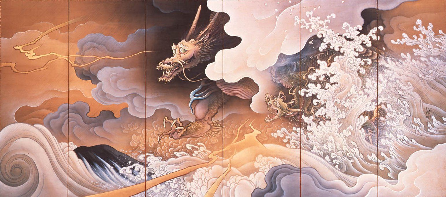 Folding screen with painting of dragon and tiger. Important Cultural Properties of Japan